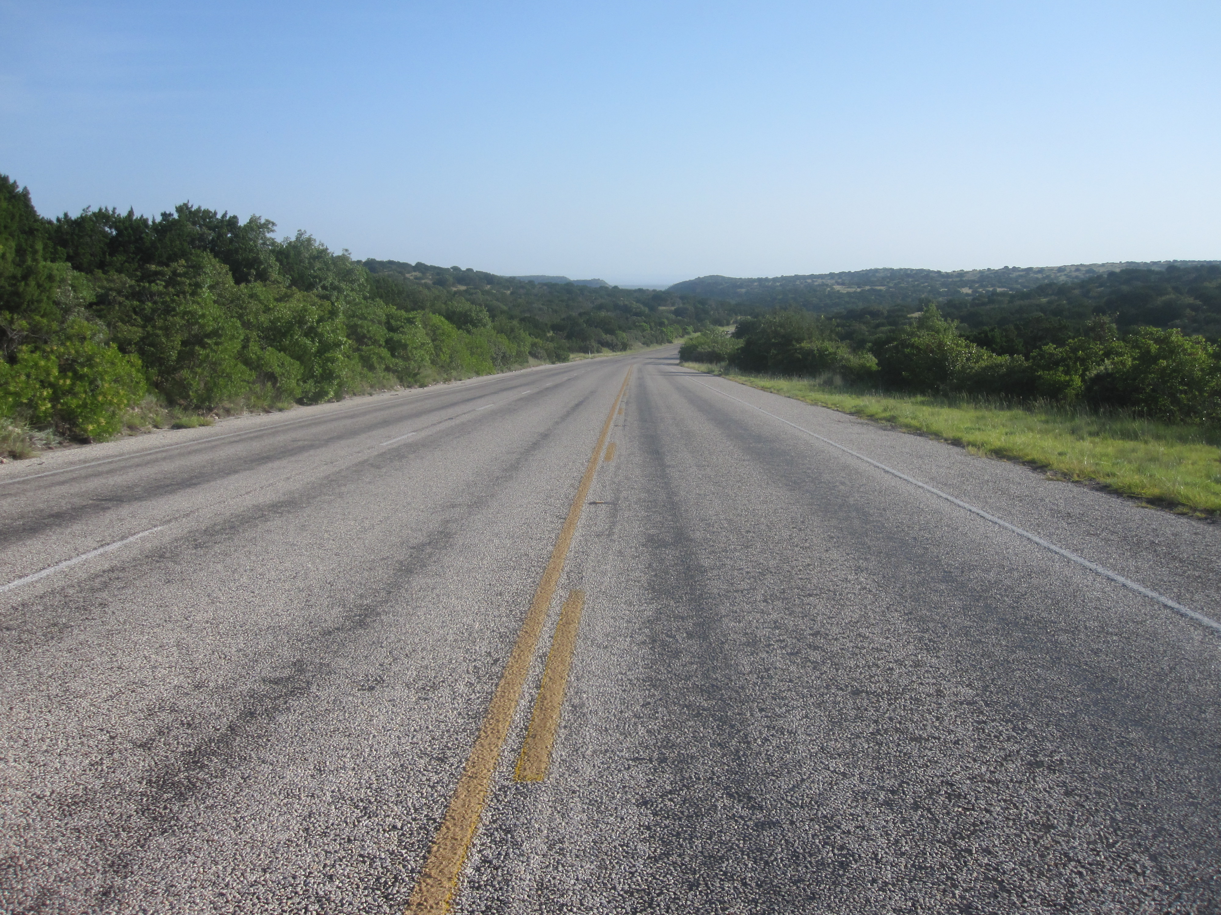 I took photo with Canon camera on Texas Highway 208.